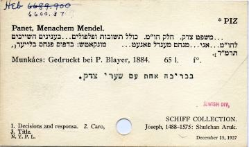 Catalog card used in the Harvard College Library. The classification Heb denotes Hebraica